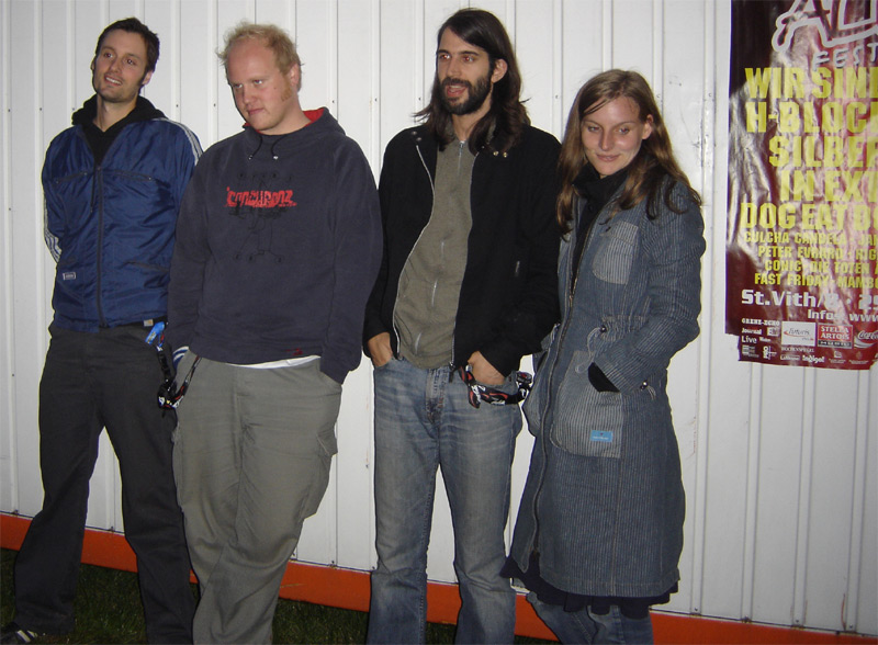 Wir sind Helden (from left to right: Mark Tavassol, Jean-Michel Tourette, Pola Roy, Judith Holofernes)